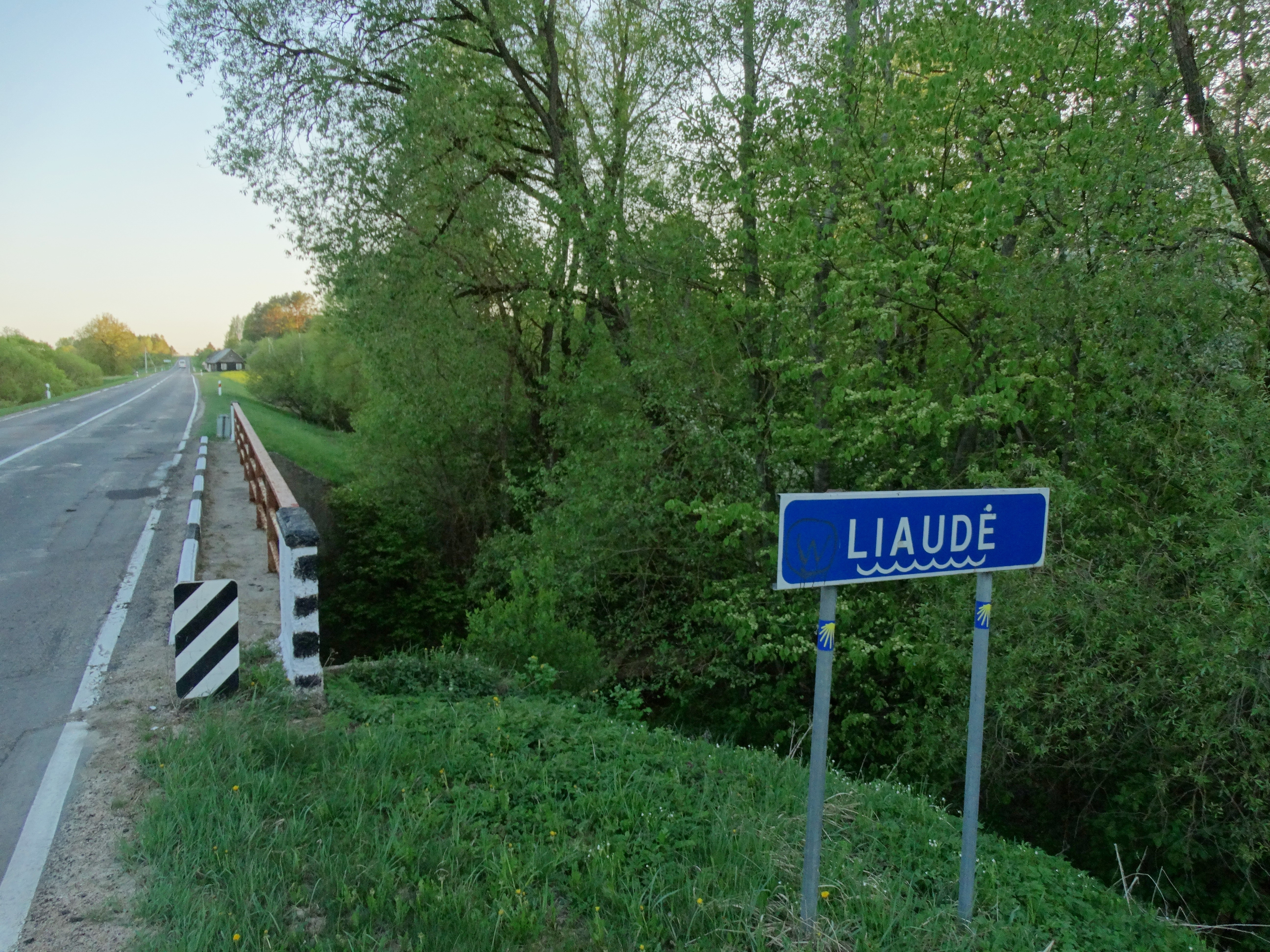 Liaudė River in Bakainiai, Kėdainiai district, Lithuania